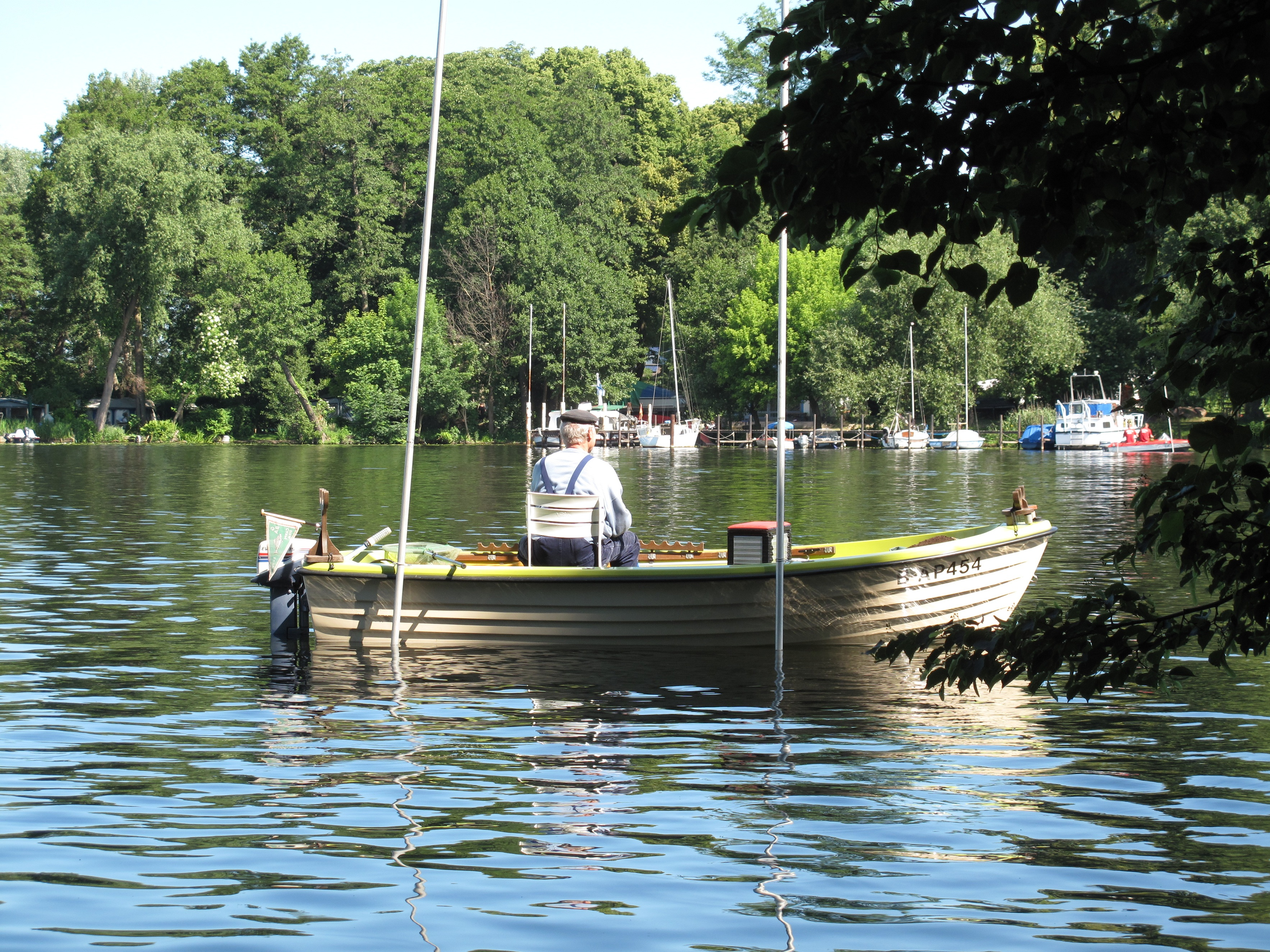 Southern bank of the island Valentinswerder, situated in the Lake Tegel in Berlin.